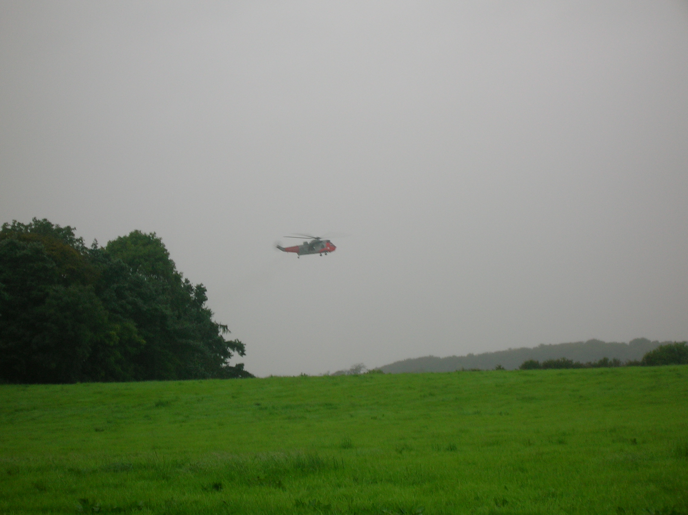 A Royal Navy search and rescue helicopter from RNAS Prestwick (HMS Gannet) at Lambroughton, North Ayrshire, Scotland. August 2007. Rosser 11:40, 20 August 2007 (UTC)